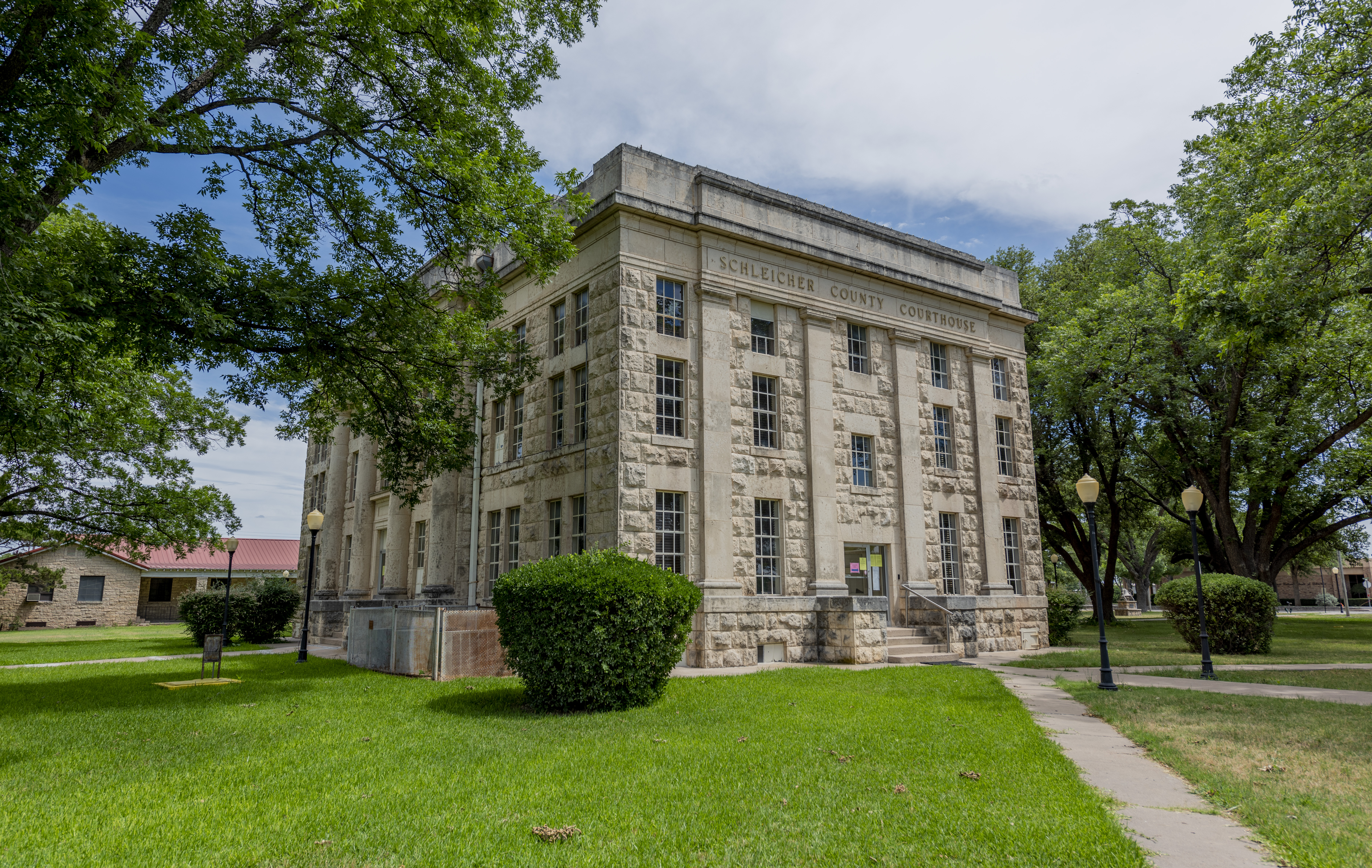 Image of the Schleicher County courthouse located in Eldorado, Texas. Taken in May 2020.